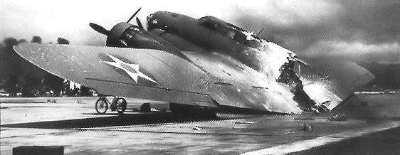 38th Reconnaissance Squadron Boeing B-17C Fortress 40-2070 was caught on approach to Hickam Field, Hawaii on 7 December 1941 by strafing Japanese Fighters, who left it burned out on the Tarmac. The bomber's flare storage box had been struck by rounds fired by the Japanese fighters as the Fortress approached Hickam. The pilot managed to land the burning B-17 which broke in half upon hitting the runway and came to rest just short of the Hale Makai barracks. All of the crewmen but one survived the landing.